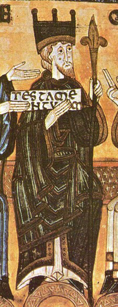 Alfonso III of Asturias